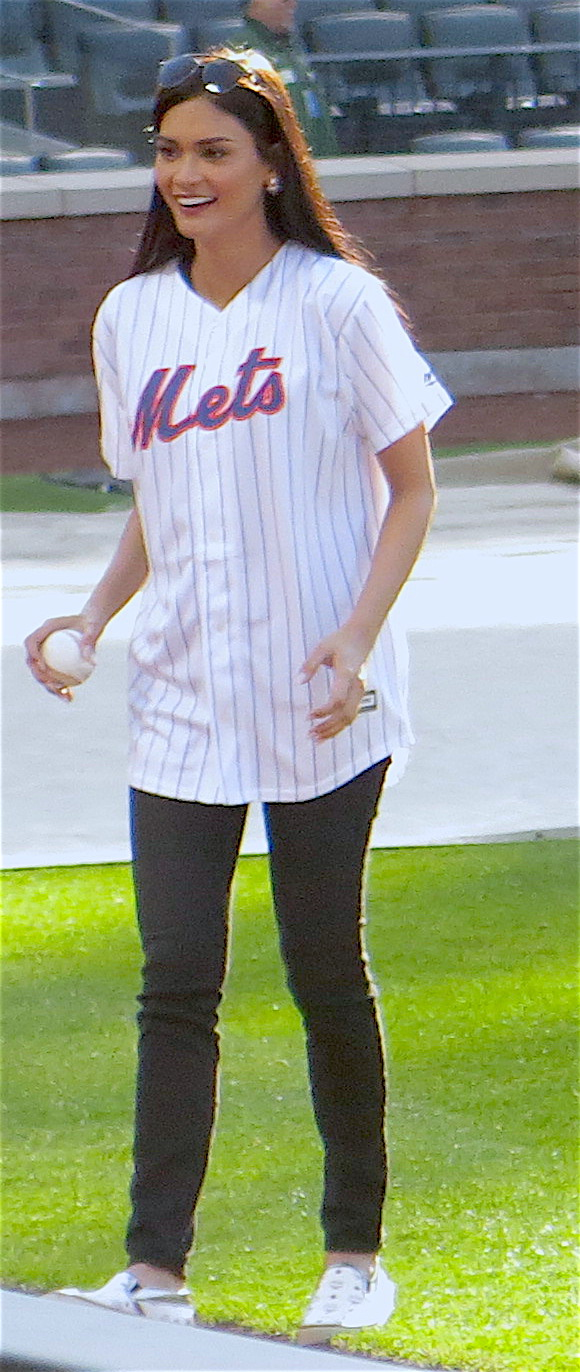 Pia Wurtzbach before throwing out a first pitch for the New York Mets.